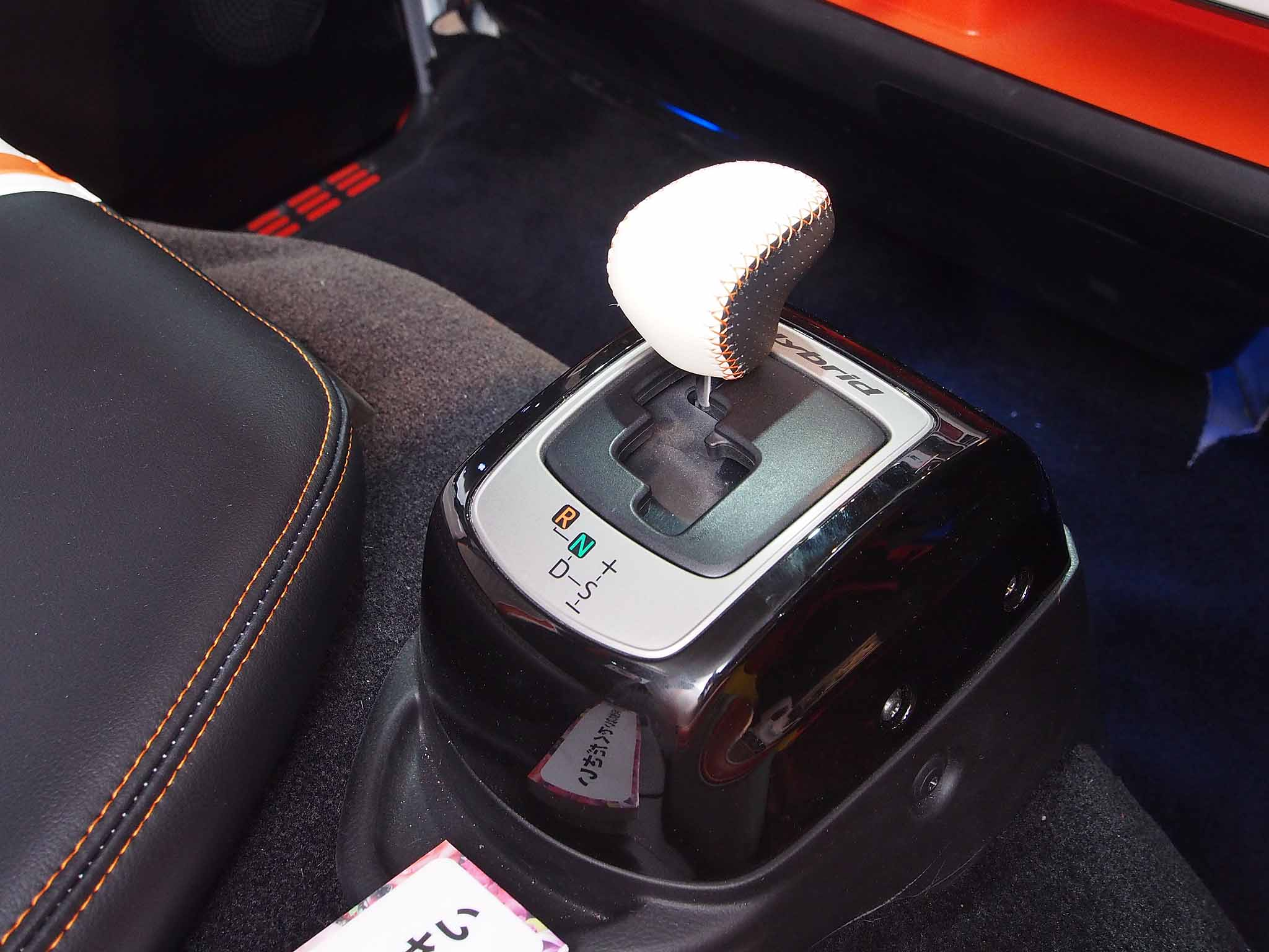 Gear stick of Hino Dutro (2nd) Pro Shift.